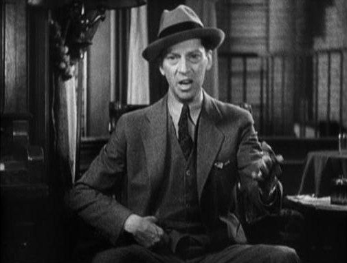 Frame from public domain trailer for 1933 Warner Bros. film Gold Diggers of 1933 showing Ned Sparks announcing closure of show